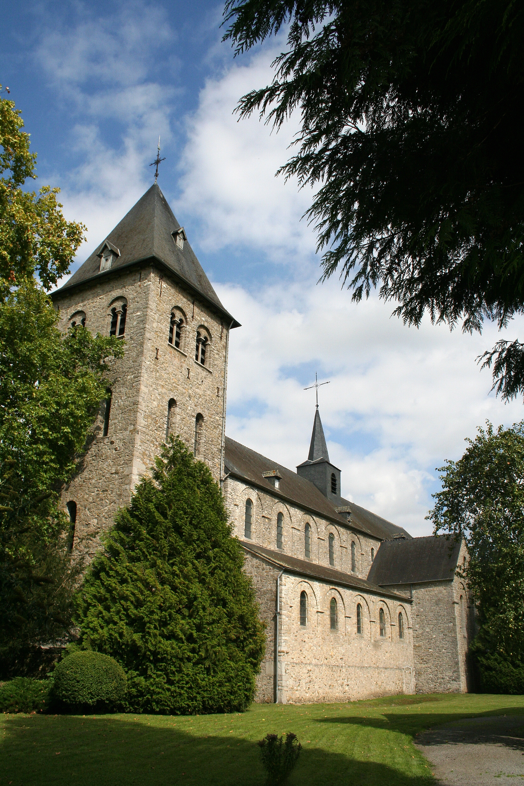 Hastière-par-delà (Belgium), the St. Peter Abbey church (1033-1035).